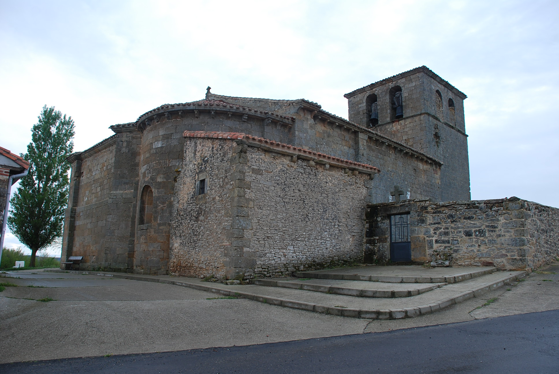 Church of Saint Andrew in Cabria (Palencia, Castile and León).